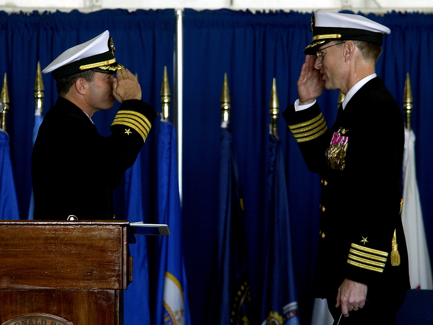 San Diego, Calif. - Capt. James A. Symonds, right, turns over command of the Nimitz-class aircraft carrier USS Ronald Reagan (CVN-76), to Capt. Terry B. Kraft during a change of command ceremony held aboard the ship at Naval Air Station North Island.